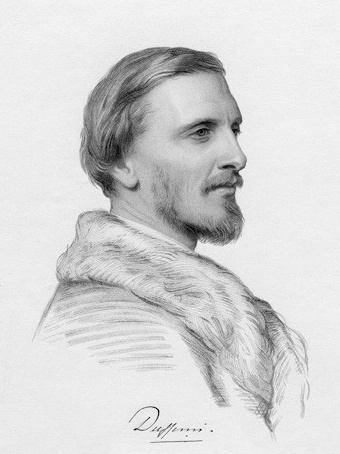 Stipple engraving of Frederick Hamilton-Temple-Blackwood, 1st Marquess of Dufferin and Ava as a young man.